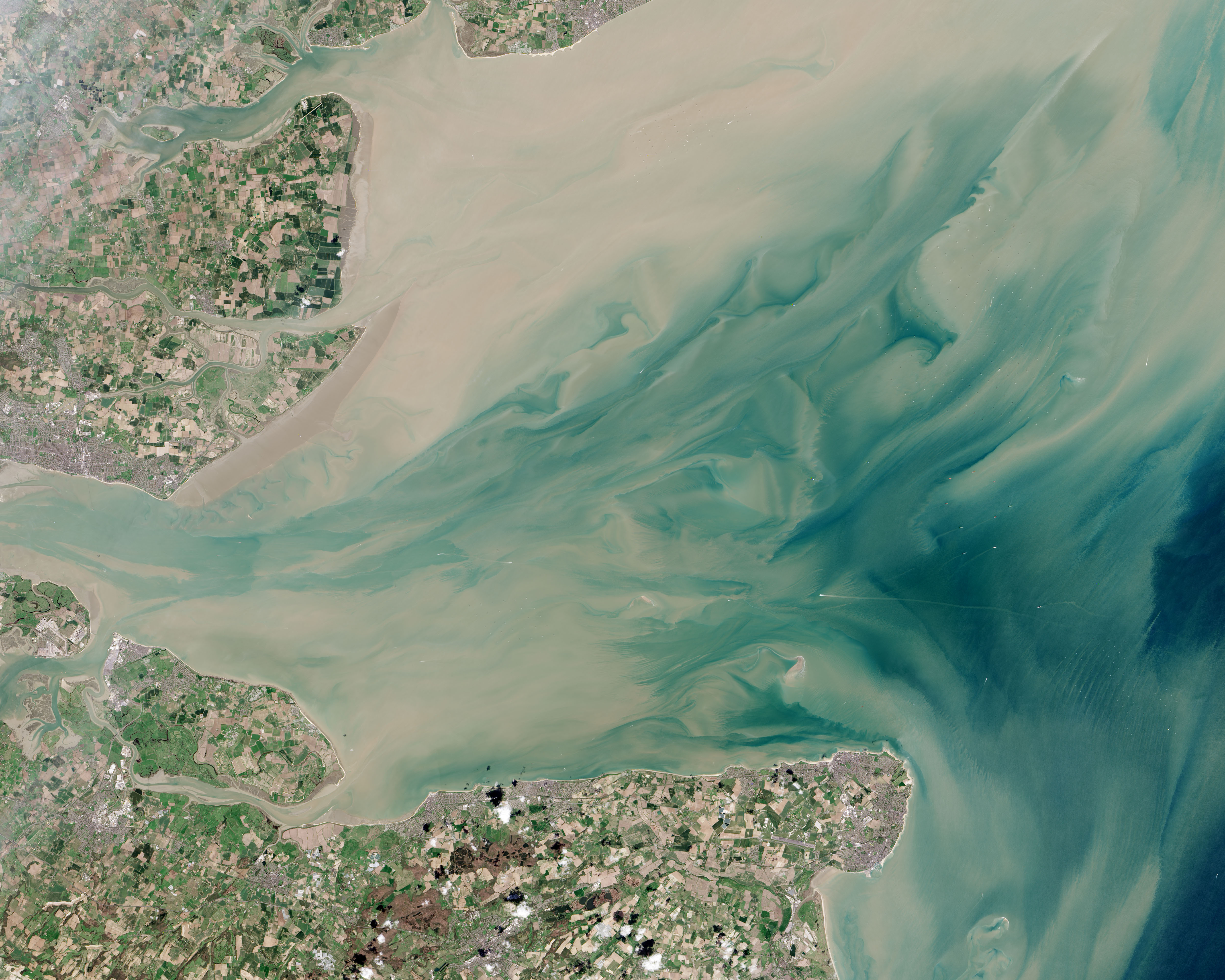 Thames Estuary and Wind Farms from Space NASA. Windfarms visible in the image are: London Array, Thanet Wind Farm, Kentish Flats Wind Farm and Gunfleet Sands Wind Farm.